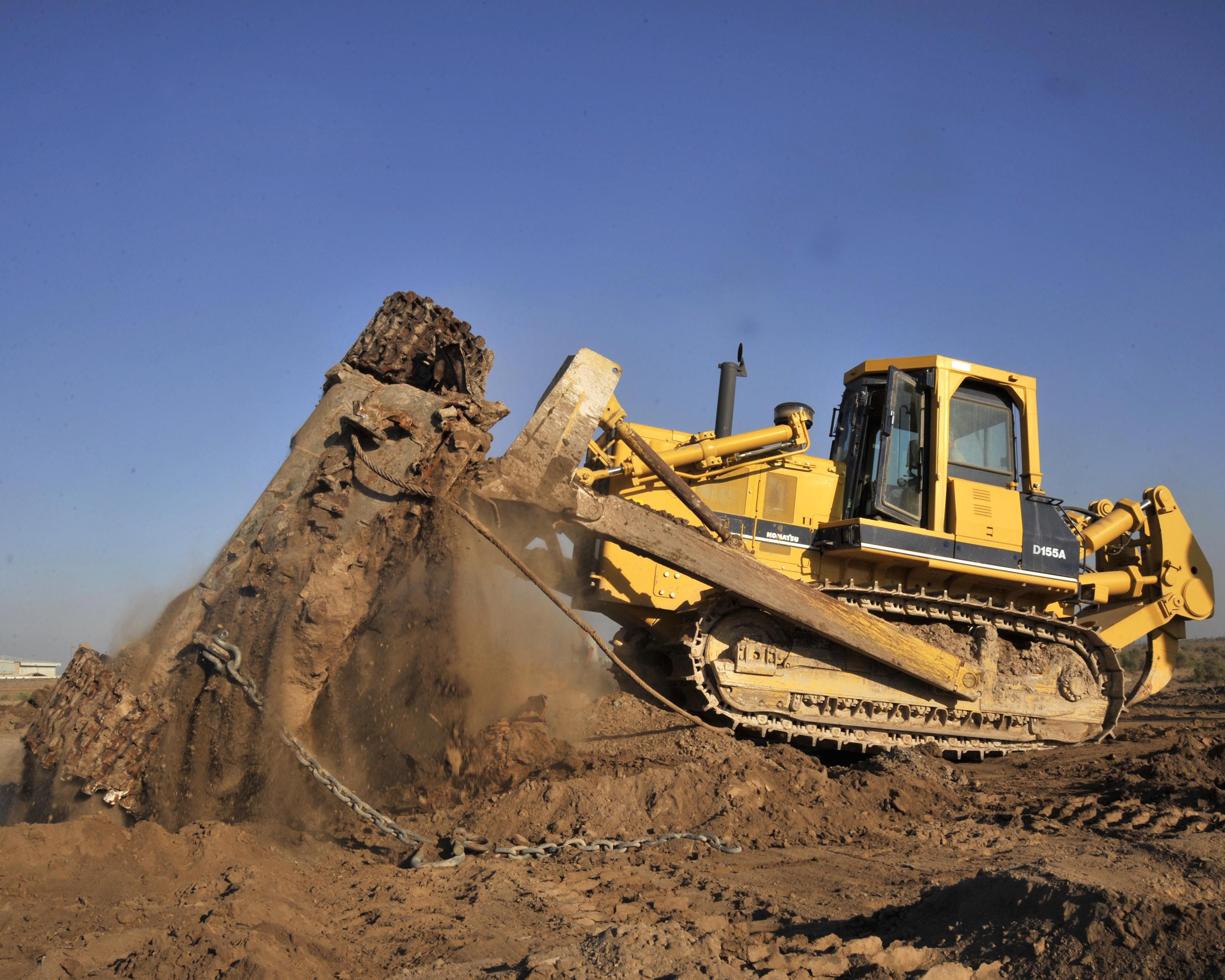 A Komatsu bulldozer in Iraq in 2008.